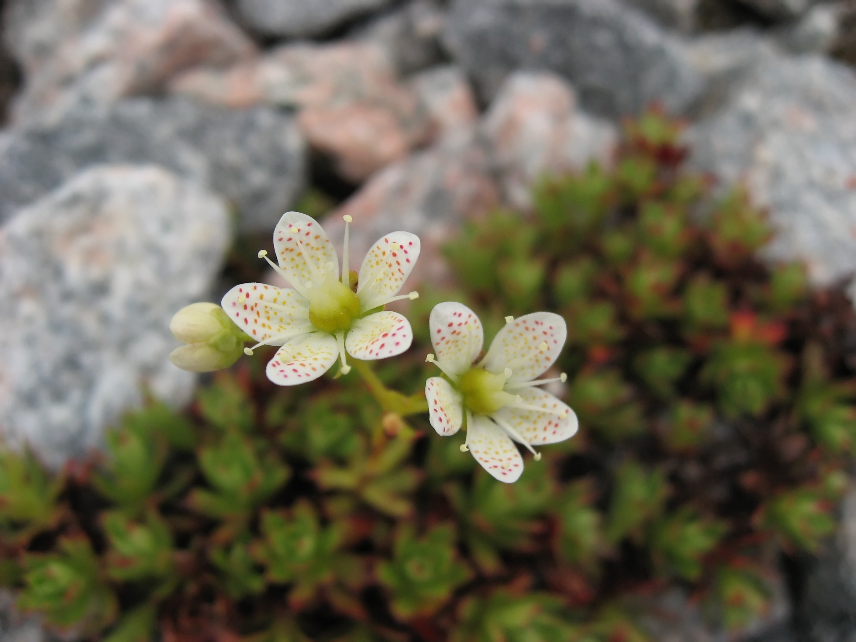 Flowers of three toothed saxifrage (Saxifraga tricuspidata) observed in rubble near the communication antenna in Upernavik, Greenland. Denoised with NoiseWare.